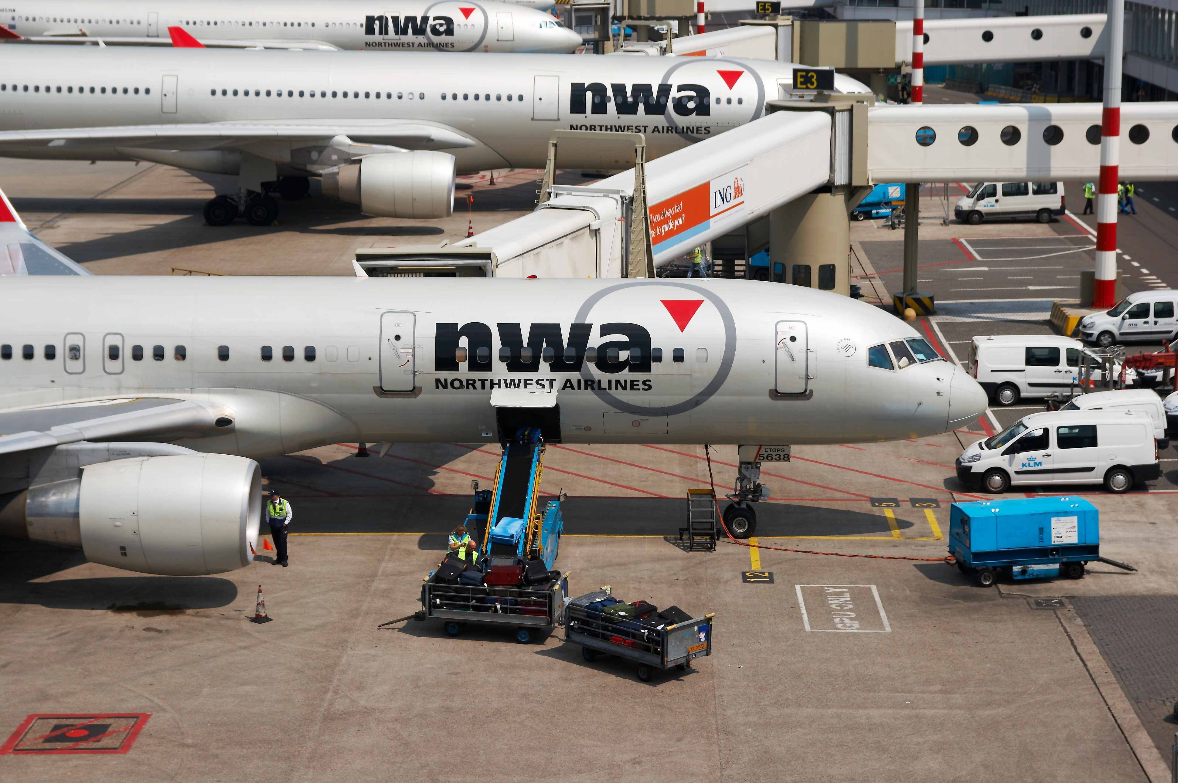 Aircraft: Boeing 757-251 Airline: Northwest Airlines Registration/CN: N538US / 5638 (cn 26485/699) Place: Amsterdam - Schiphol (AMS / EHAM)